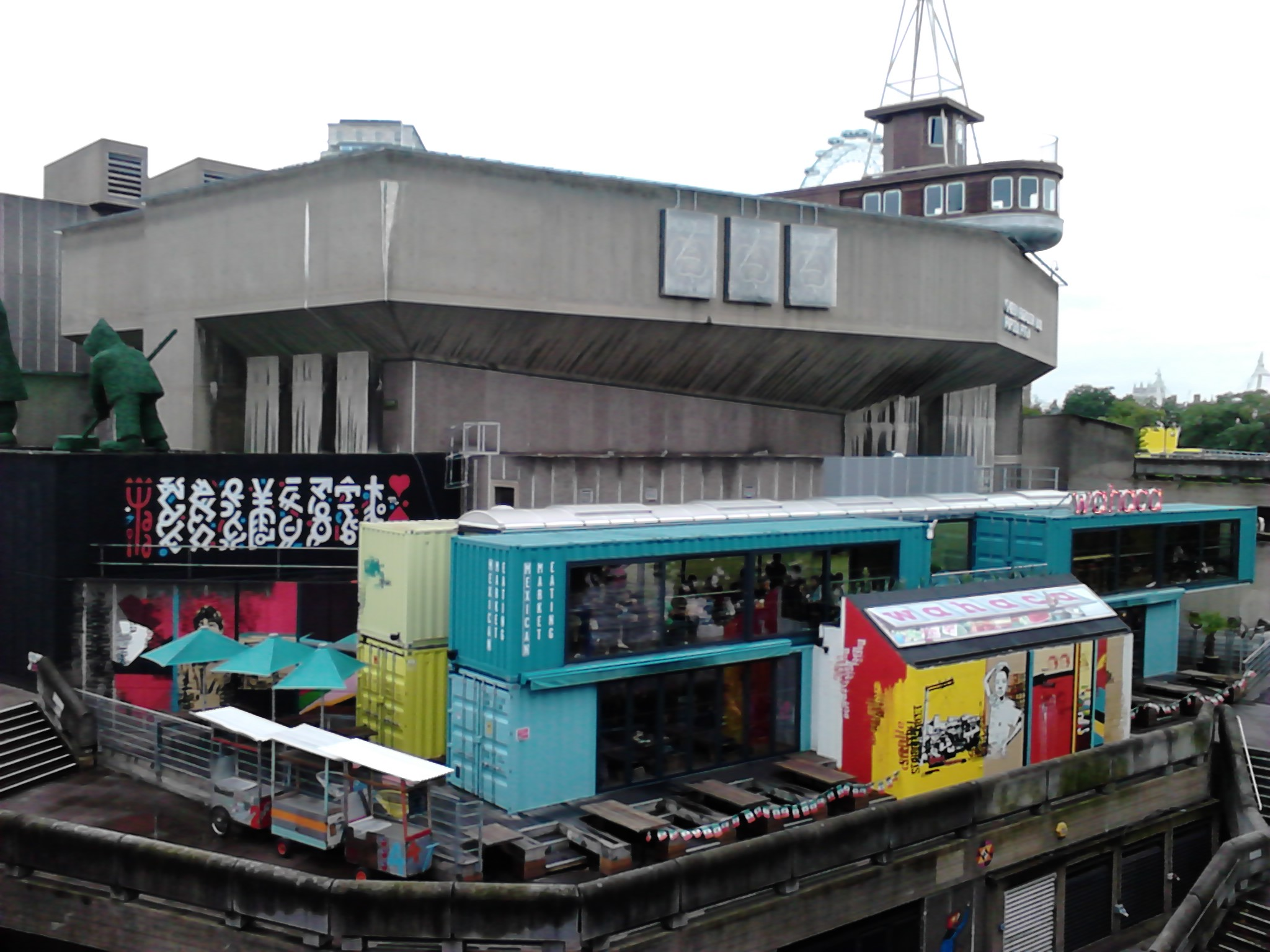 Lambeth, London, UK. Wahaca pop-up restaurant on the walkway of the Queen Elizabeth Hall, Southbank Centre, and A Room for London, the one bedroom installation on the hall's roof